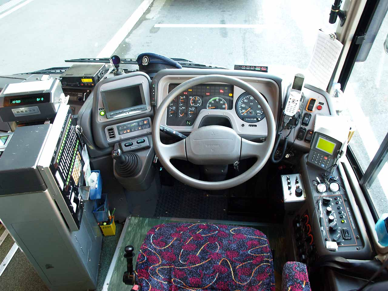 Cockpit of Mitsubishi Fuso Aero Bus (KL-MS86MP). License plate: CBC200 KA1431（千葉200か1431）